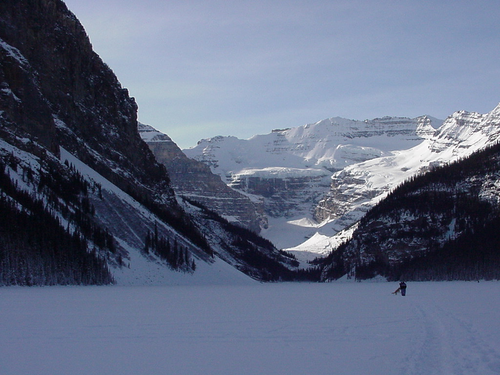 Lake Lousie, near Banff. Frozen solid in January. A glacier can be seen in the backround.